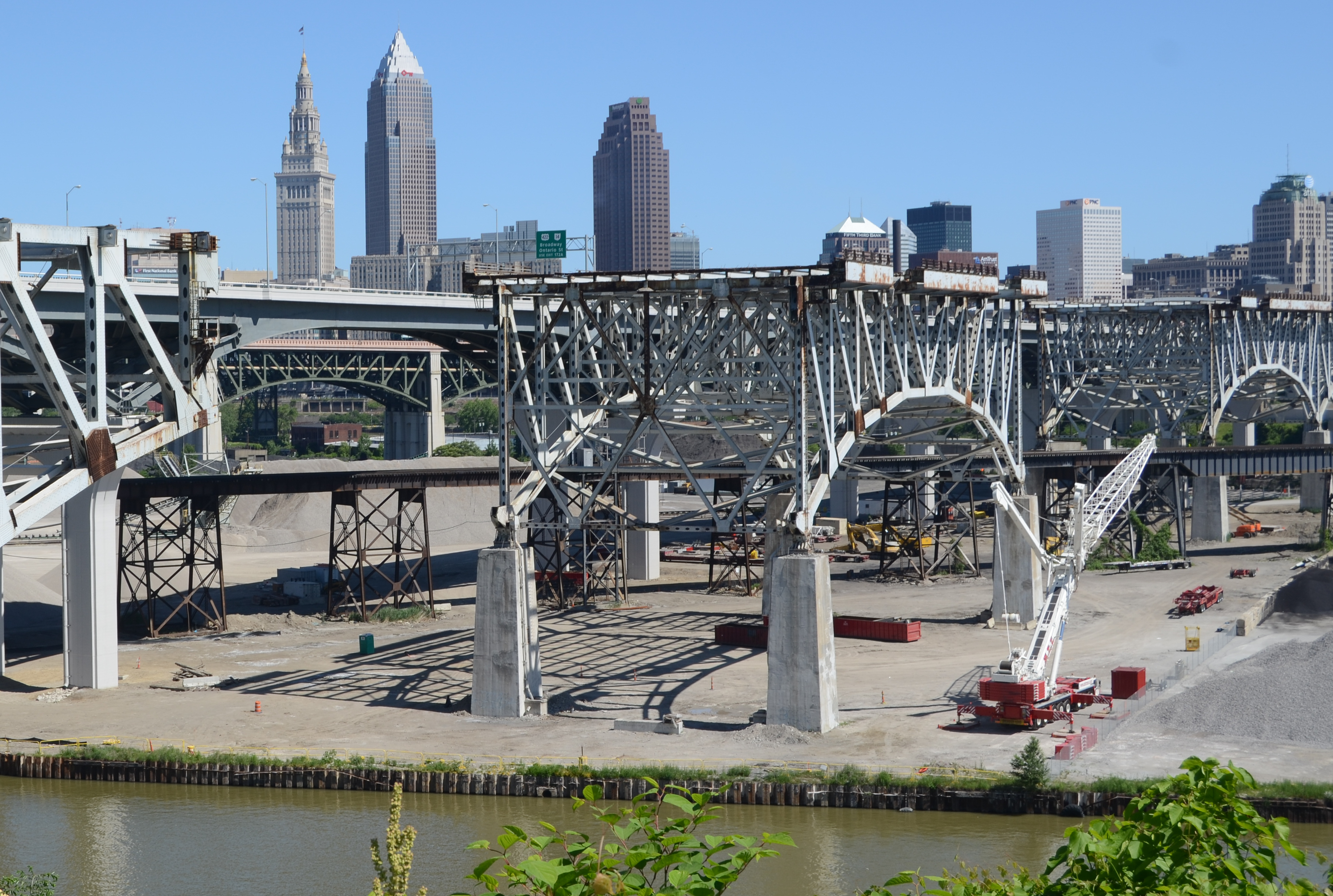 Deconstruction of the Innerbelt Bridge in Cleveland